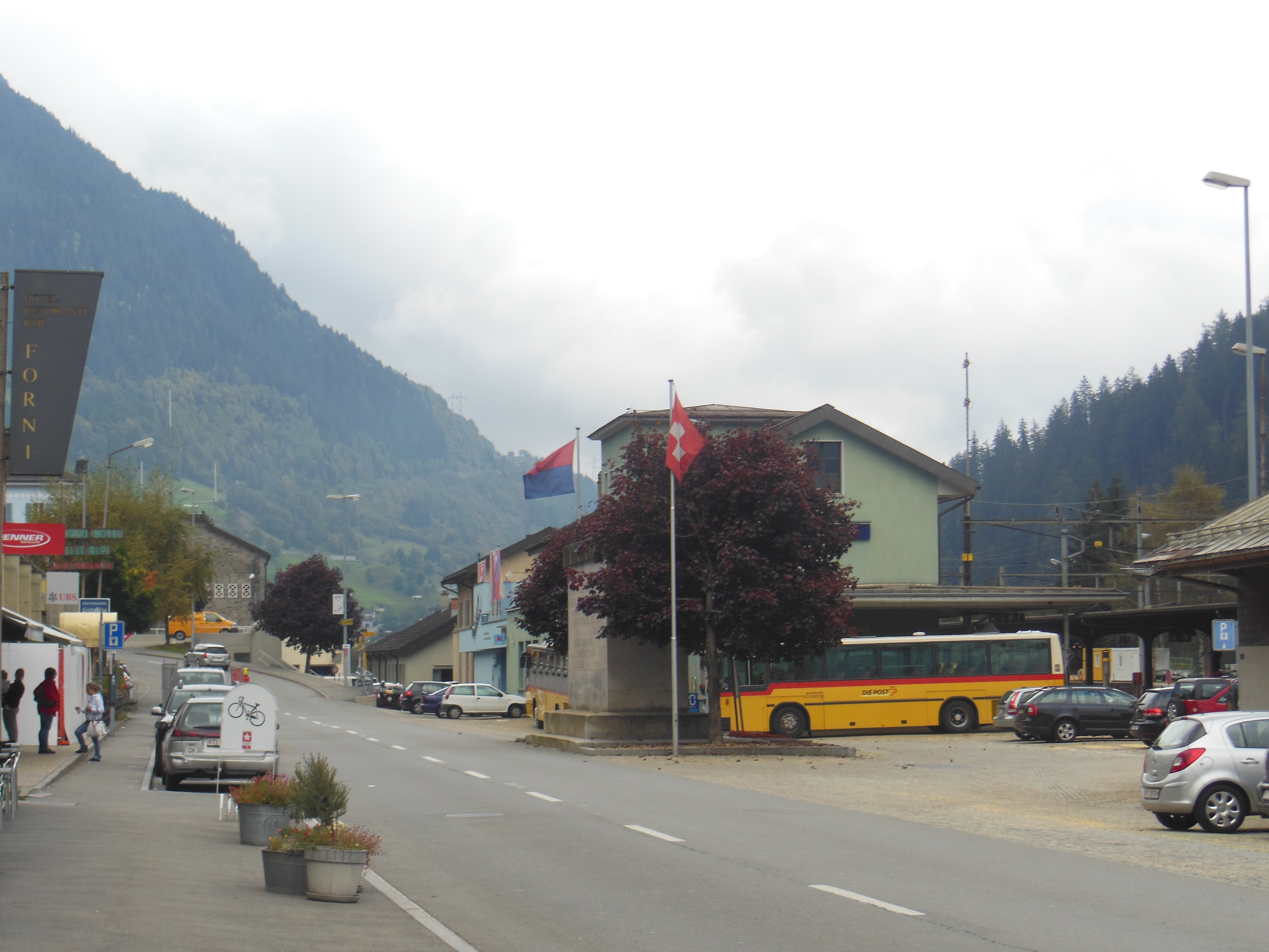 Exterior of Airolo railway station on the Gotthard railway in the Swiss canton of Ticino. For more information, see the wikipedia article Airolo railway station.